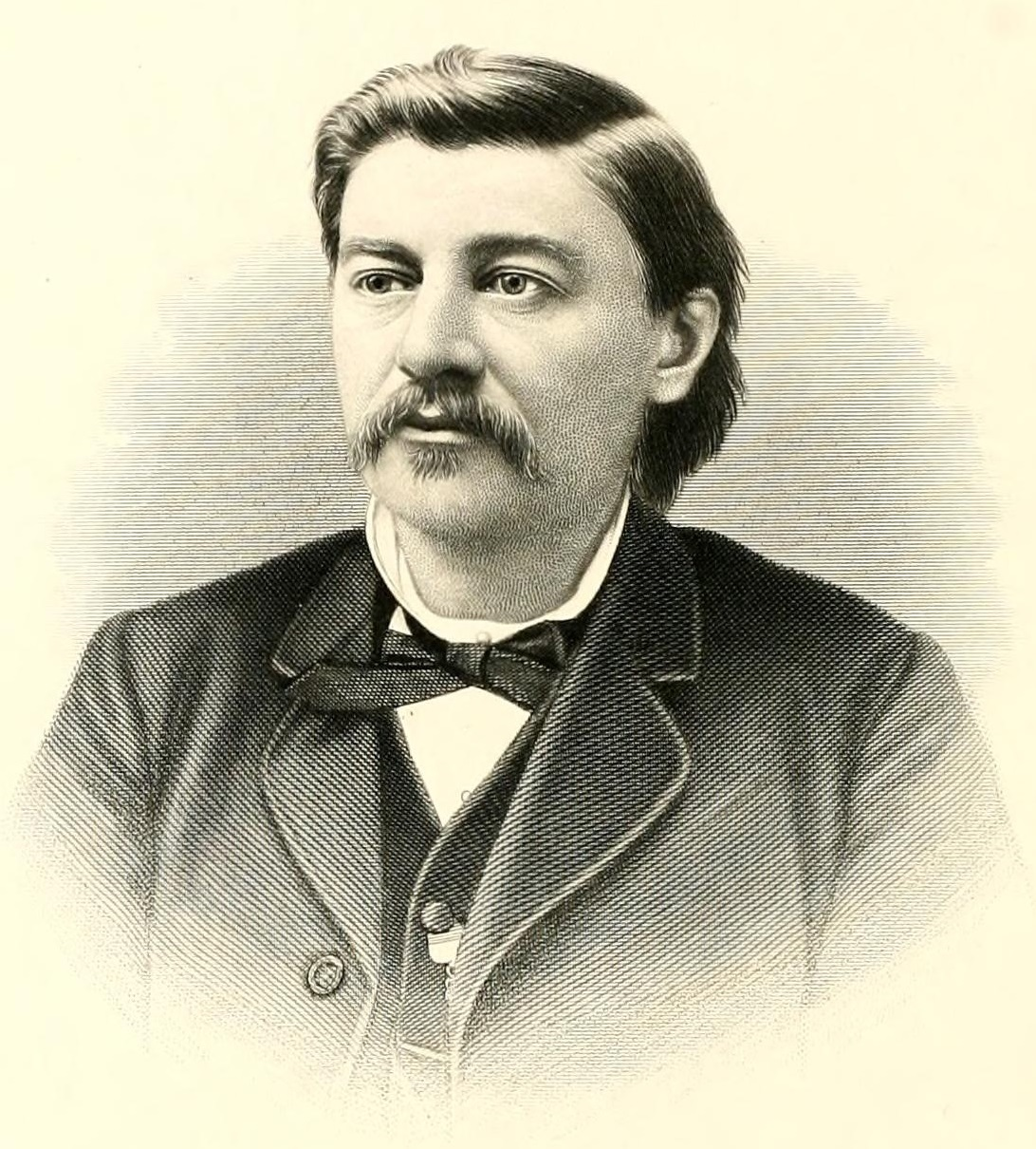 Charles N. Brumm, Pennsylvania Congressman